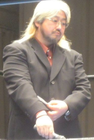 Japanese professional wrestler,Mr Gannosuke. Mar 21 2011 Ice Ribbon Korakuen Hall.